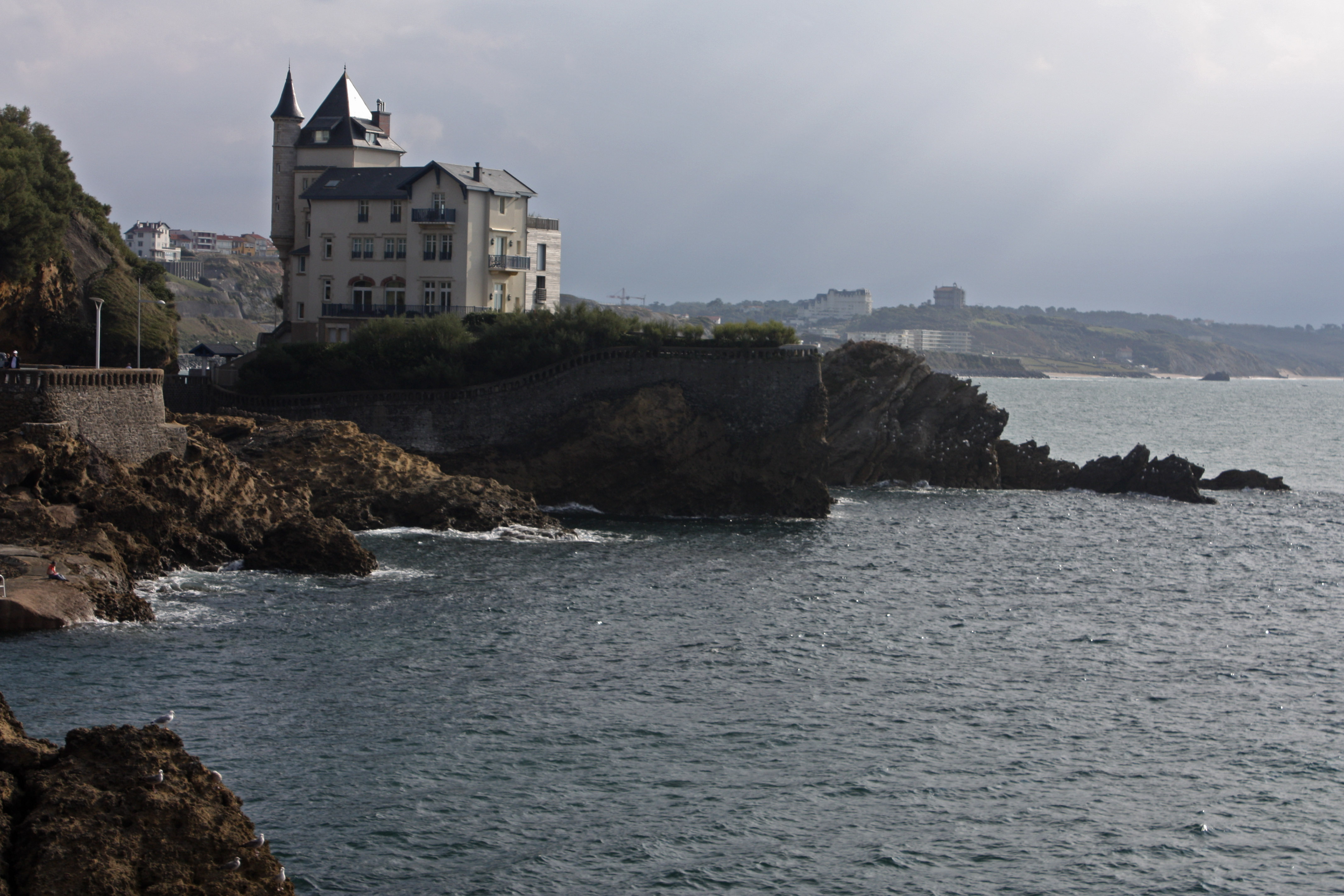 The 'Villa Belza', seen from the esplanade du ‘Rocher de la Vierge’.